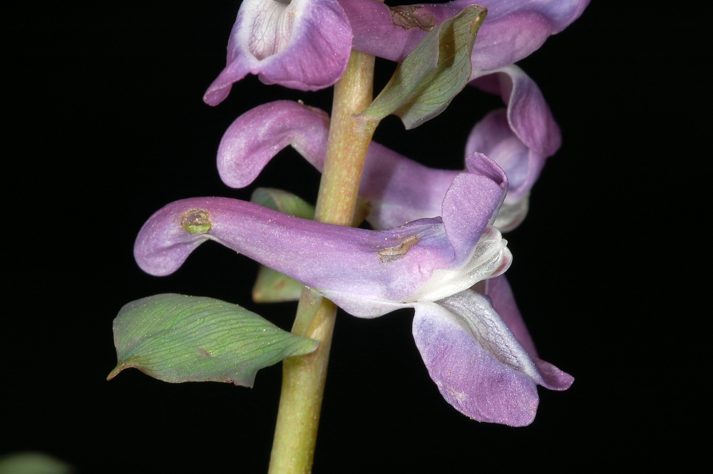 Corydalis cava, nectar robbing, Selzerbrunnen, Nied, Frankfurt/Main, Germany